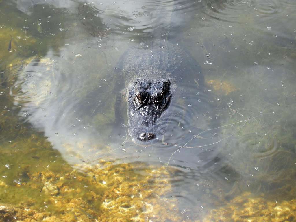 Alligator in the Blue Hole, on Big Pine Key, Florida.